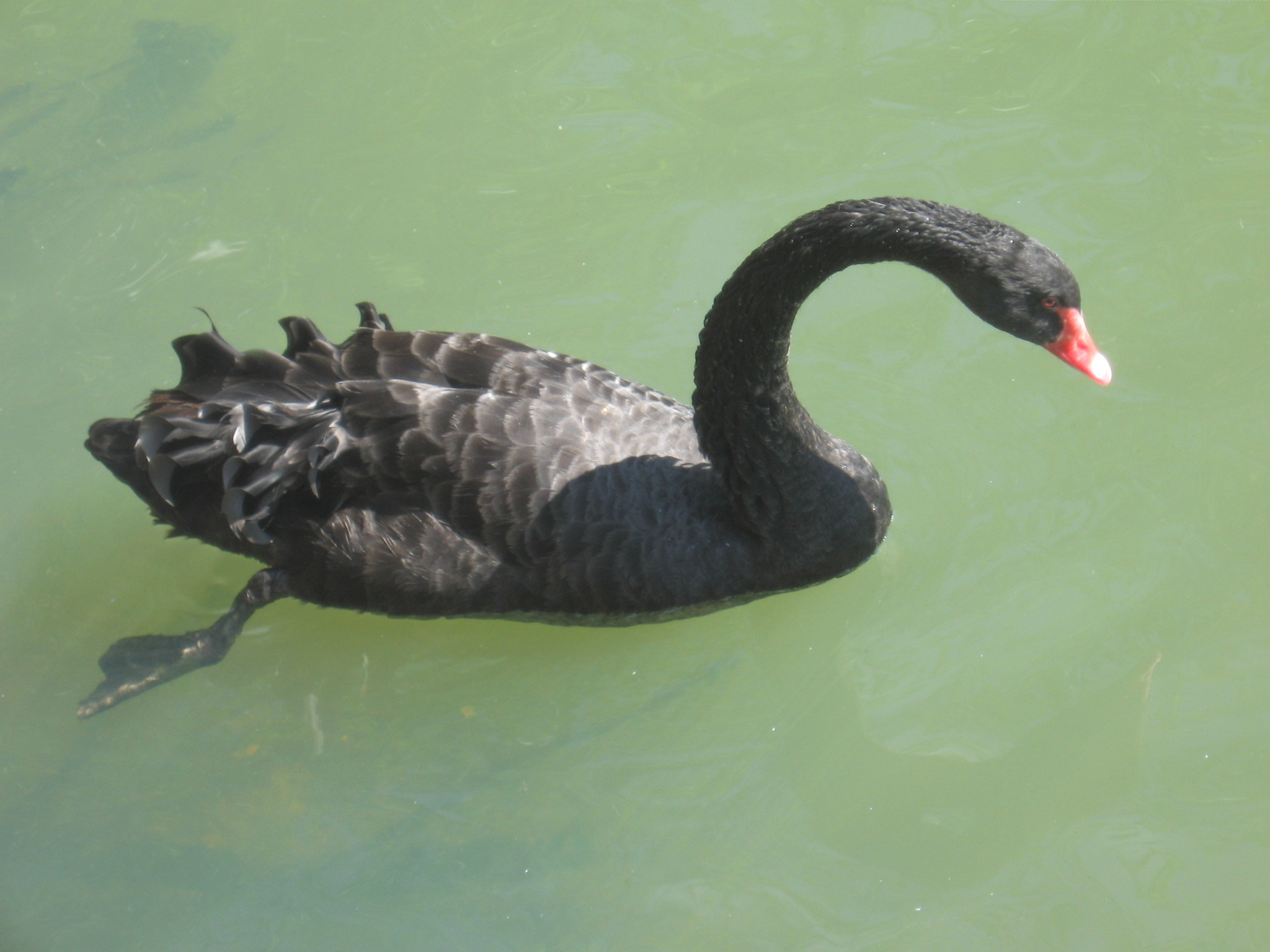 Tallinn Zoo Black Swan (Cygnus atratus)